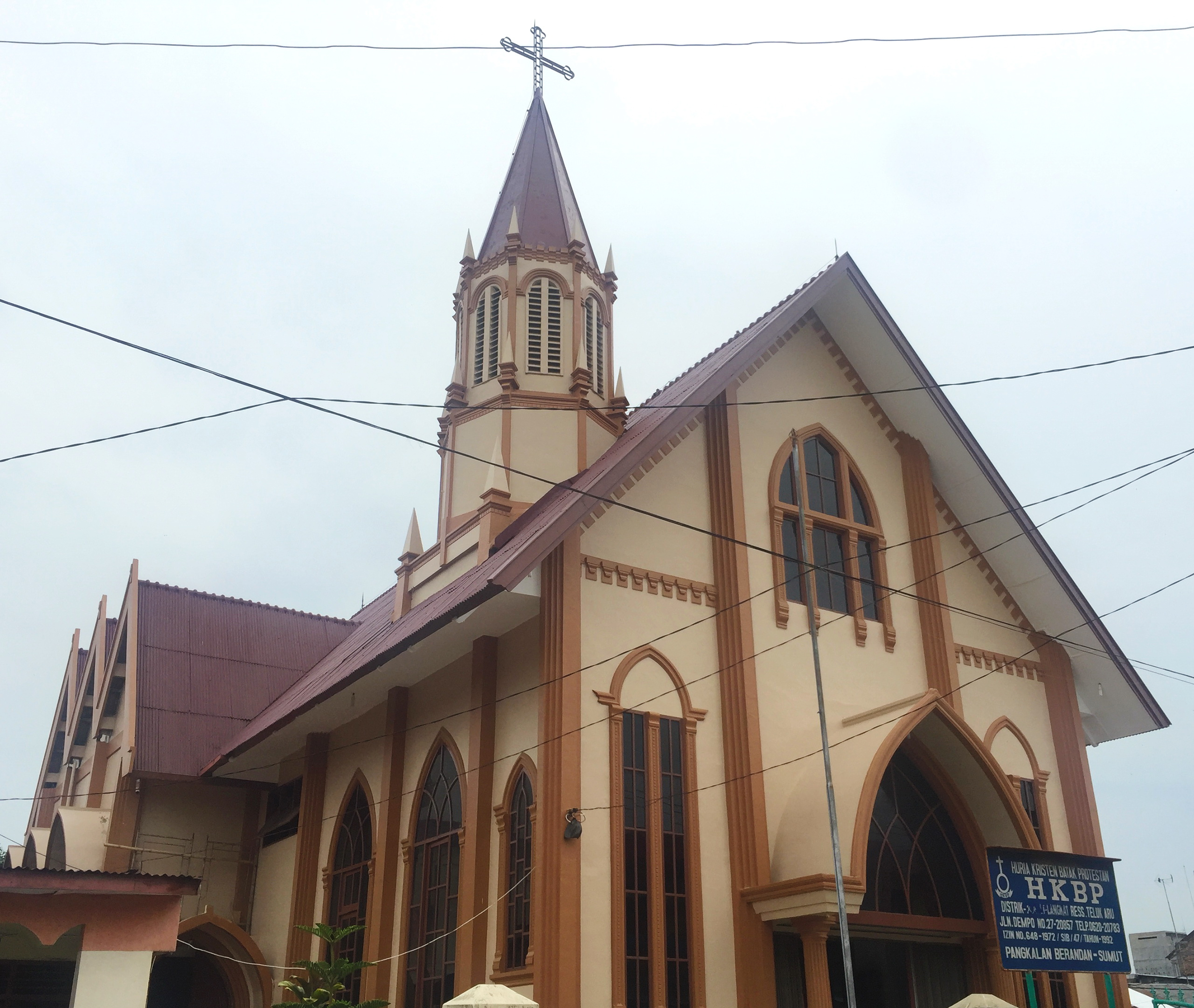 HKBP Pangkalan Brandan, Church in Pangkalan Brandan, Babalan, Langkat